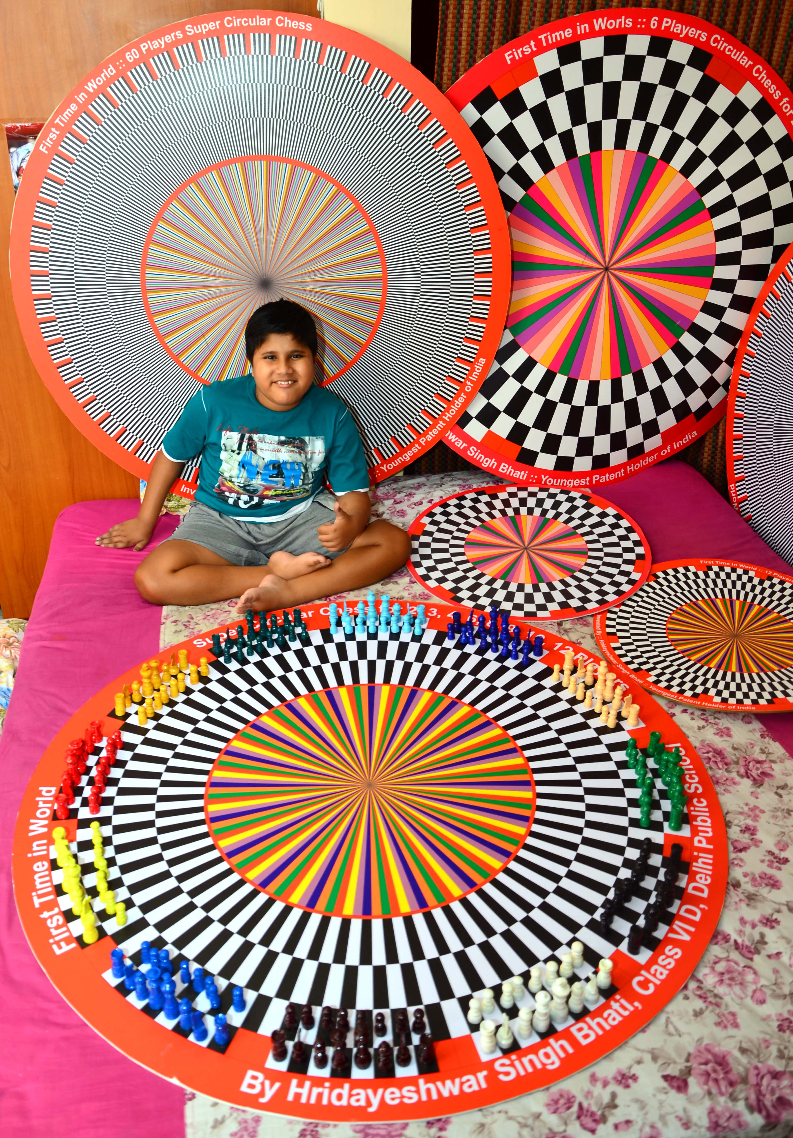 Hridayeshwar Singh Bhati with his chess variants(Invented)